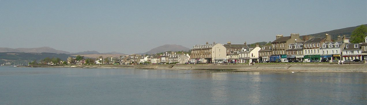 Helensburgh, looking west from the pier